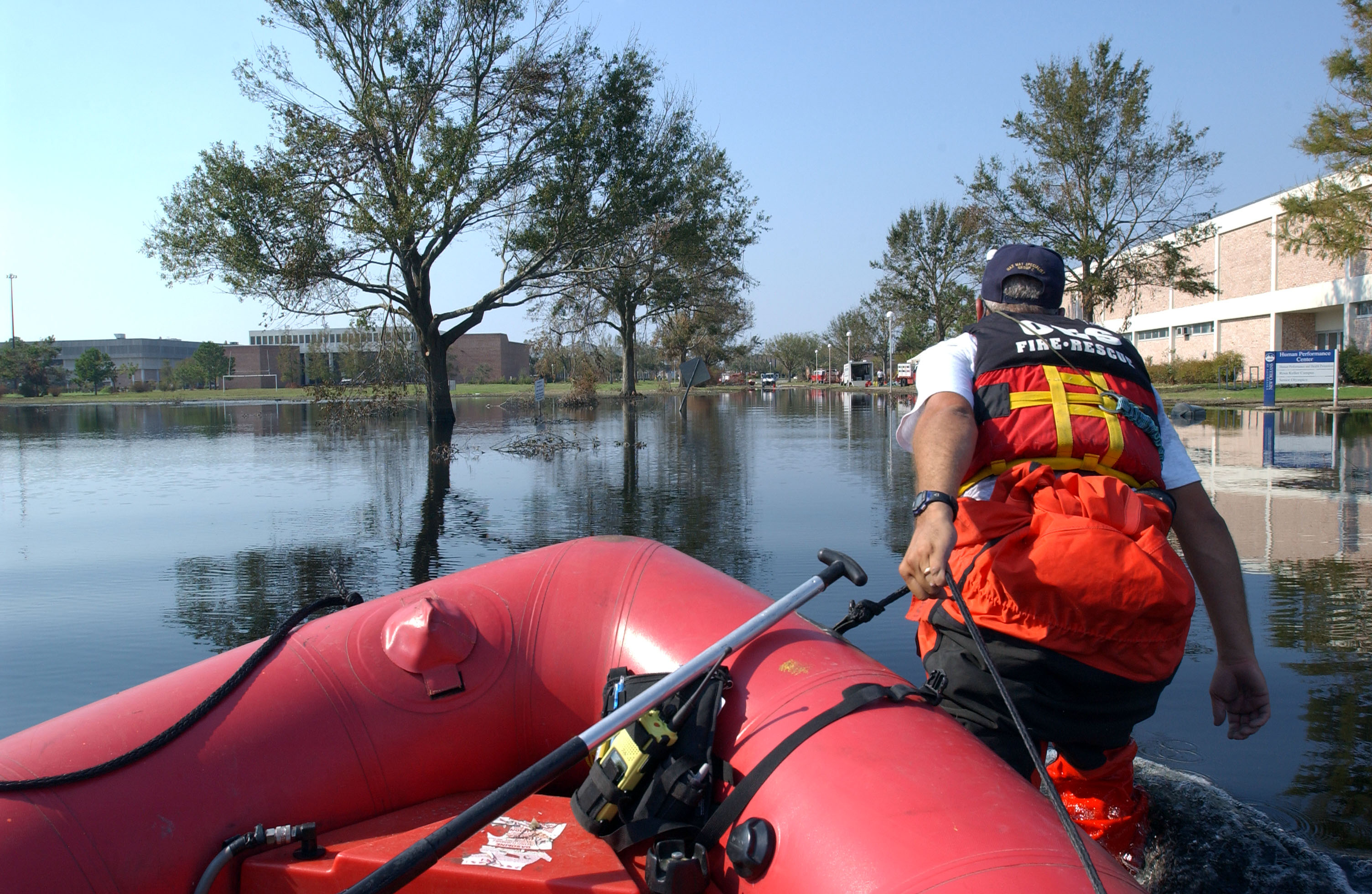 New Orleans, LA, September 8, 2005 -- The FEMA Urban Search and Rescue teams search areas impacted by Hurricane Katrina looking for residents still needing help getting out of the area. Photo by Jocelyn Augustino/FEMA